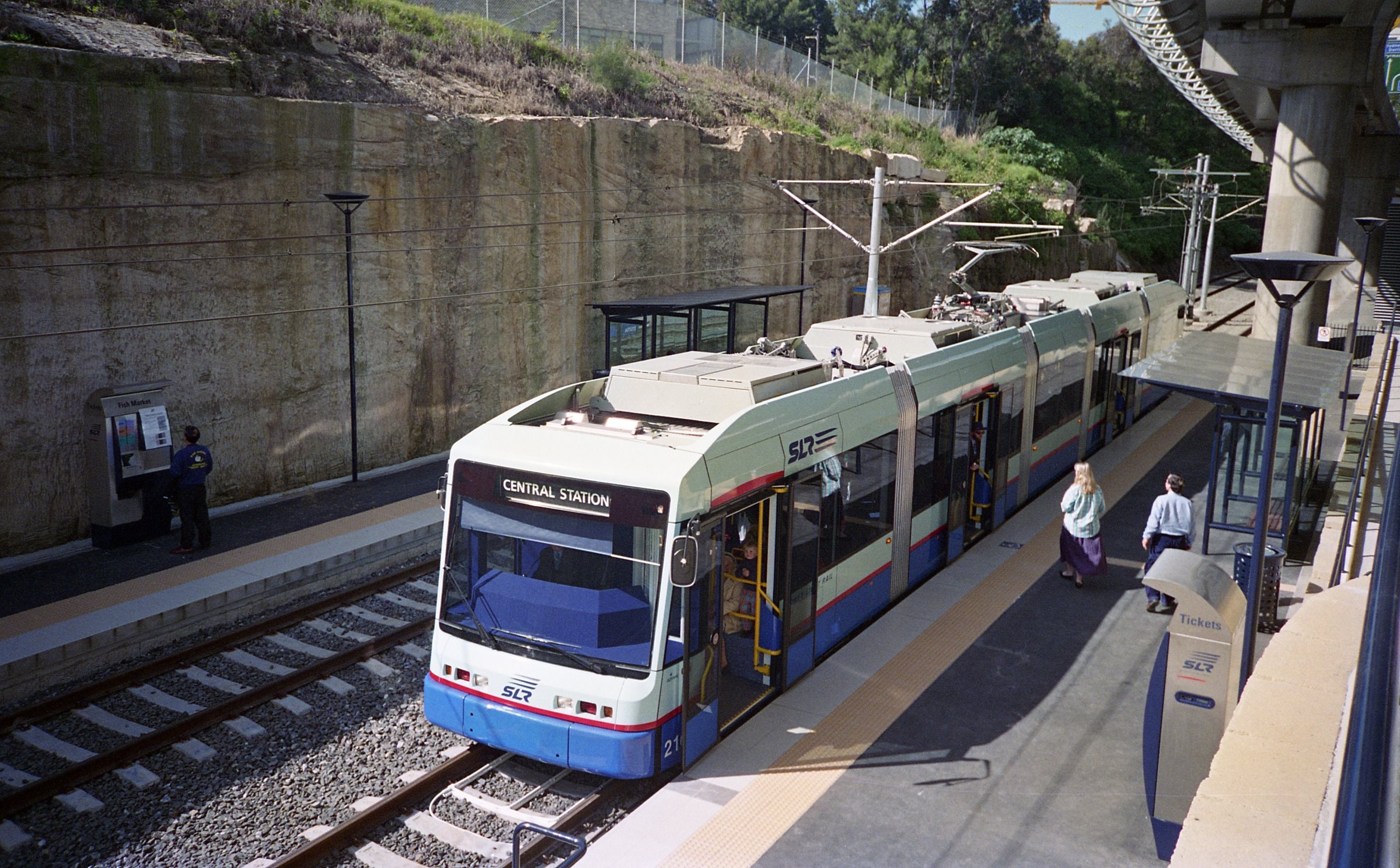 The newly-opened Fish Market stop of the Sydney Light Rail. Tram No.2104. Taken on 27 Aug 1997 on Kodak film.